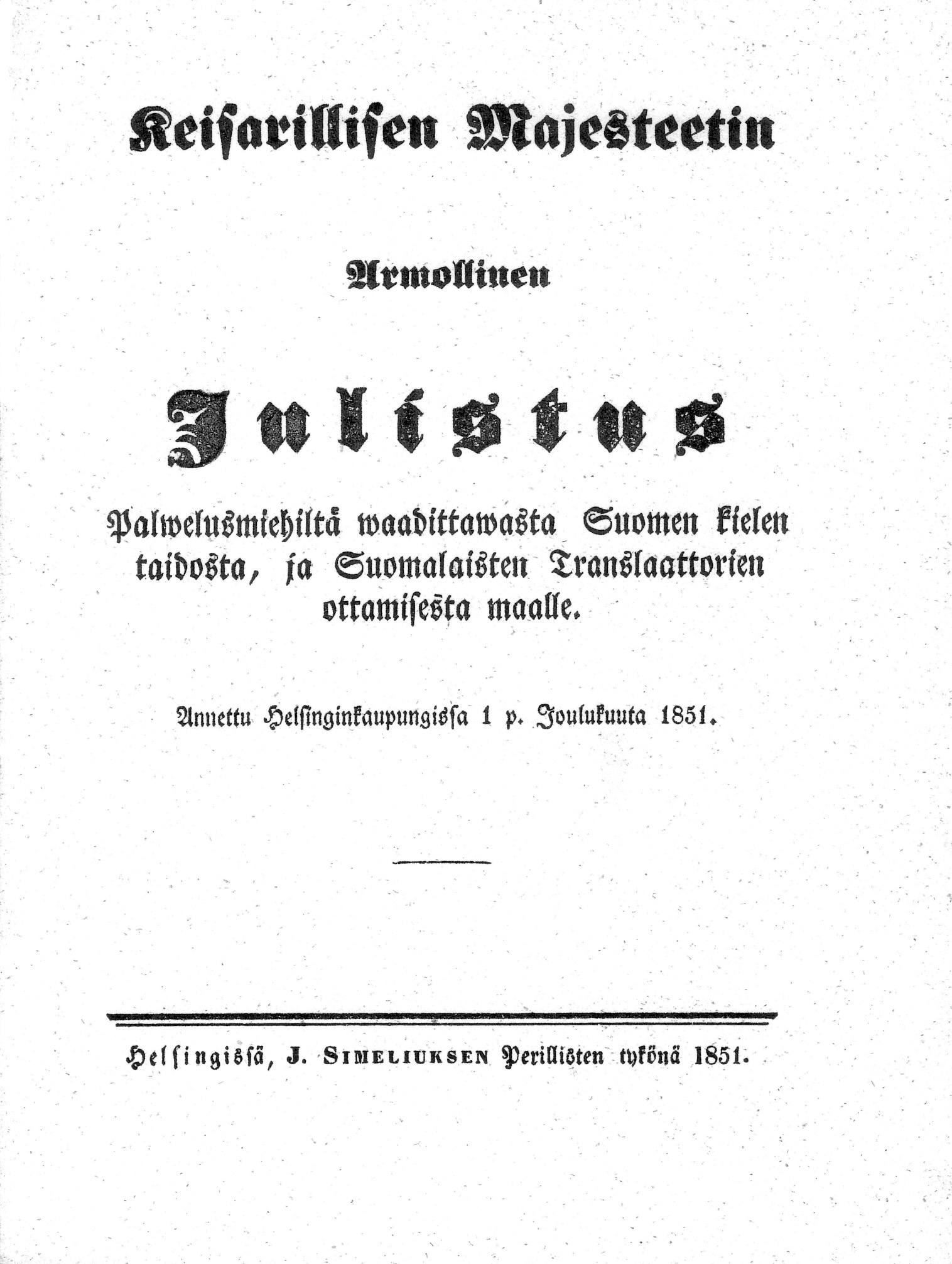 Title page of the so-called Language Proclamation (Act) of 1851 which strengthened the position of the Finnish language in the Grand Duchy of Finland.